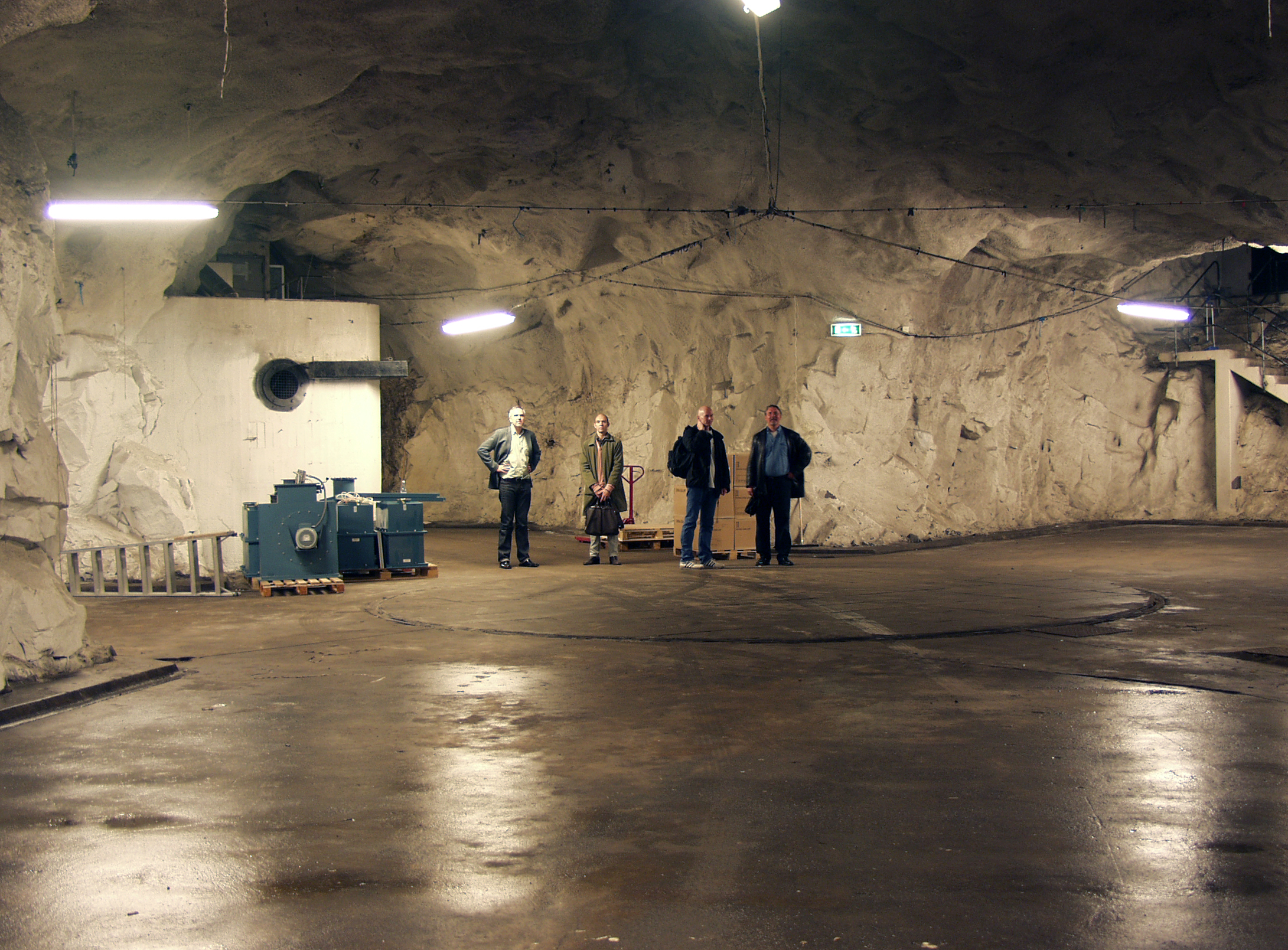 This is a view of the Pionen shelter before it was rebuilt by Bahnhof to a computer center.